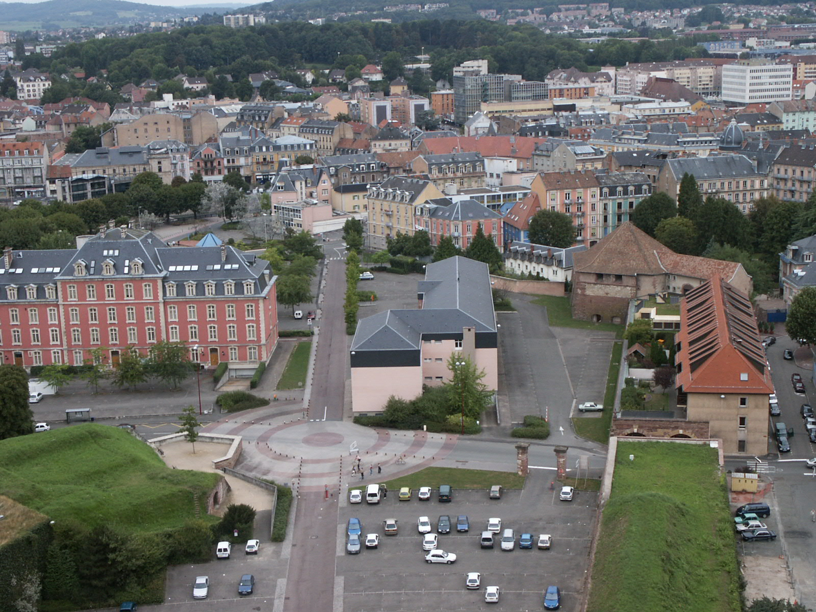 View-point : Western Belfort city